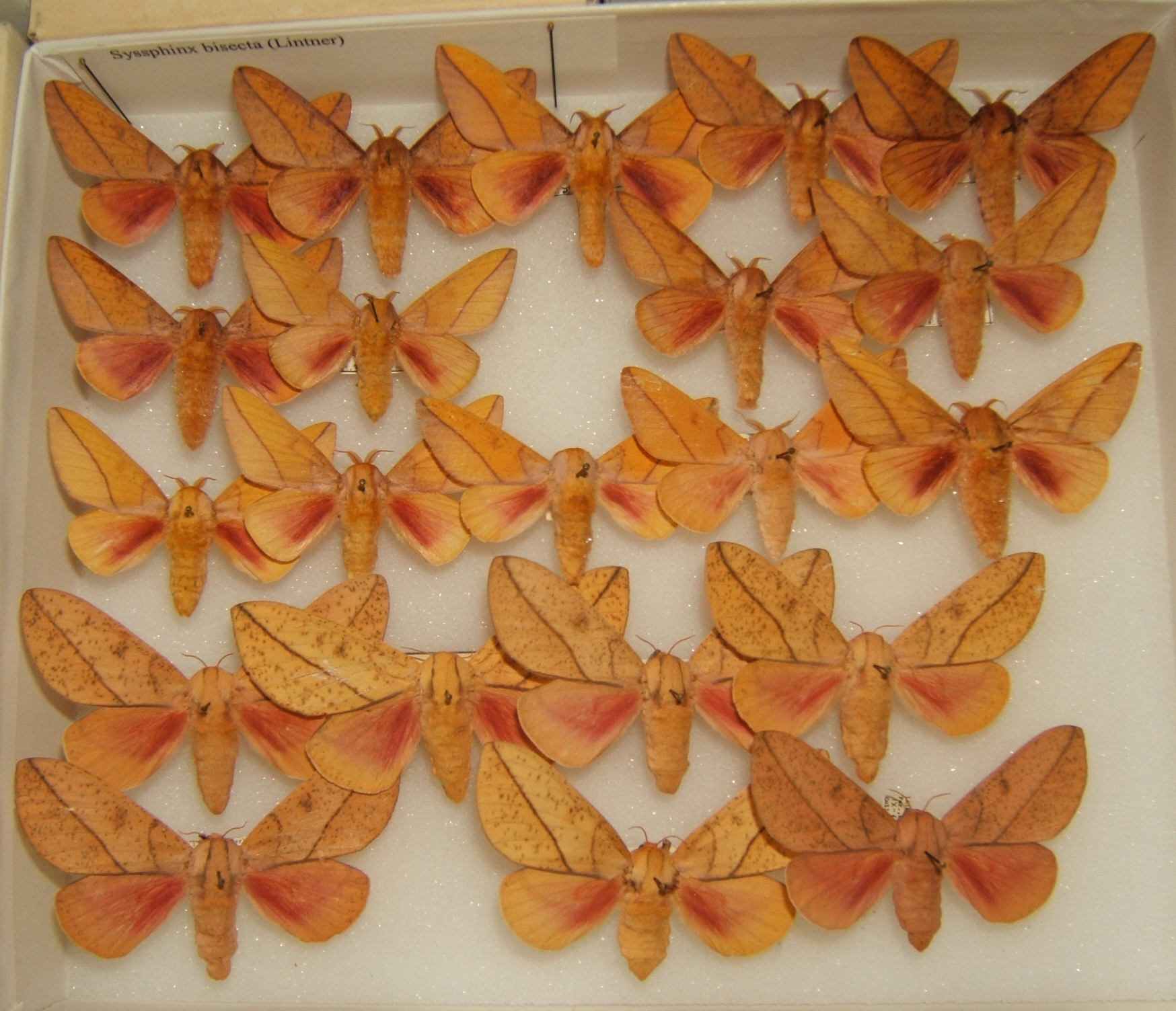 Syssphinx bisecta adult variation taken by Shawn Hanrahan at the Texas A&M University Insect Collection in College Station, Texas.